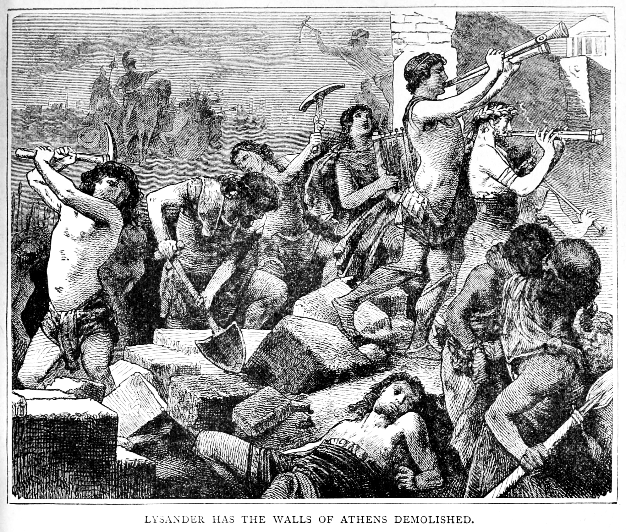 Lysander has the walls of Athens demolished